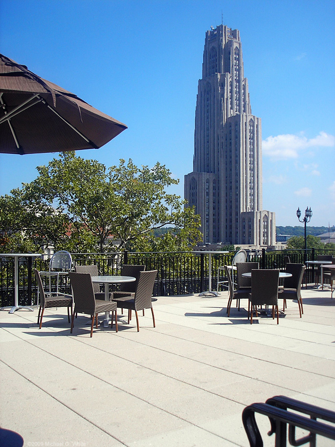 The roof terrace of the University Club at the University of Pittsburgh overlooks the school's Cathedral of Learning